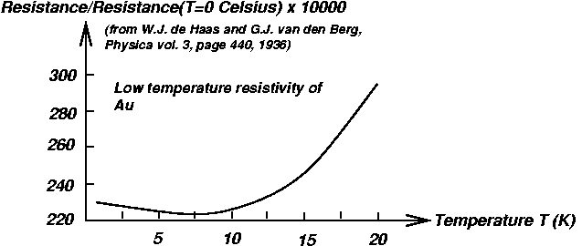 Made the image based upon old data in the cited article from 1936. Fair use applies. I produced the figure--it is a drawing of old resistivity measurements from 1936 for which there is no online image and fair use would apply in any case. History of Image:Classickondo.jpg 2006-12-29T19:58:04Z Bkell (Talk